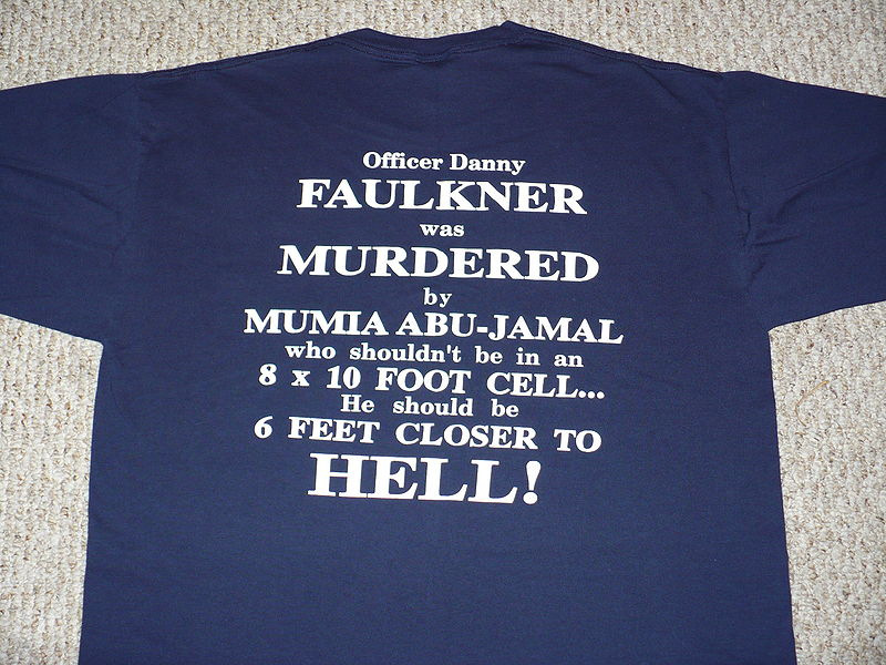 An Anti Mumia Abu-Jamal T-Shirt